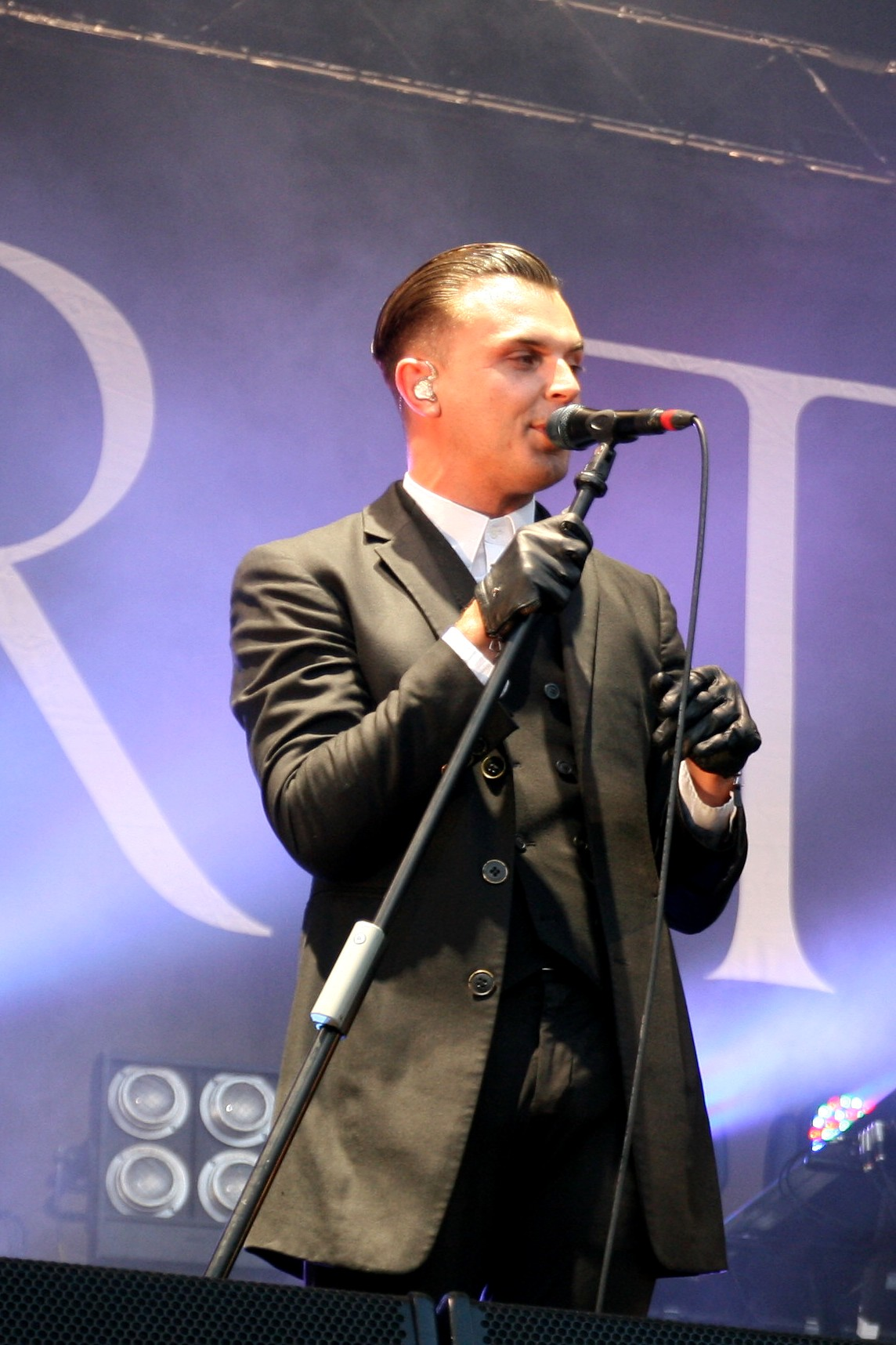 Theo Hutchcraft, singer of Hurts, stands on the Alterna Stage of Rock im Park-Festival 2013. Festivalsommer This photo was created with the support of donations to Wikimedia Deutschland in the context of the CPB project "Festival Summer".